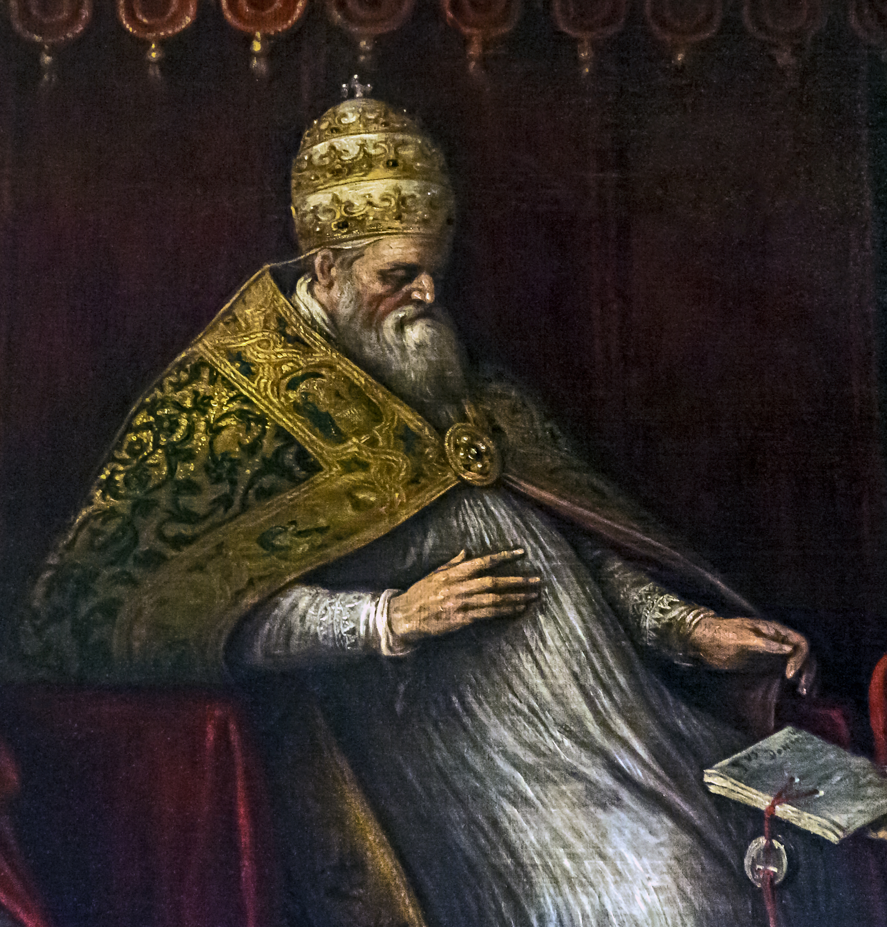 Santi Giovanni e Paolo, Venice. Honorius III Approving the Rule of St Dominic by Leandro Bassano close-up on Pope Honorius III. Oil on canvas from the first half of the 17th century.